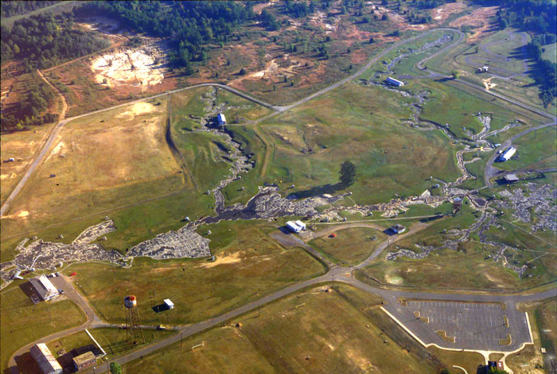 Aerial photo of the whole of the Mississippi River Basin Model, with Atchafalaya outlet to the left, Ohio River to the right, Sioux City to top right.